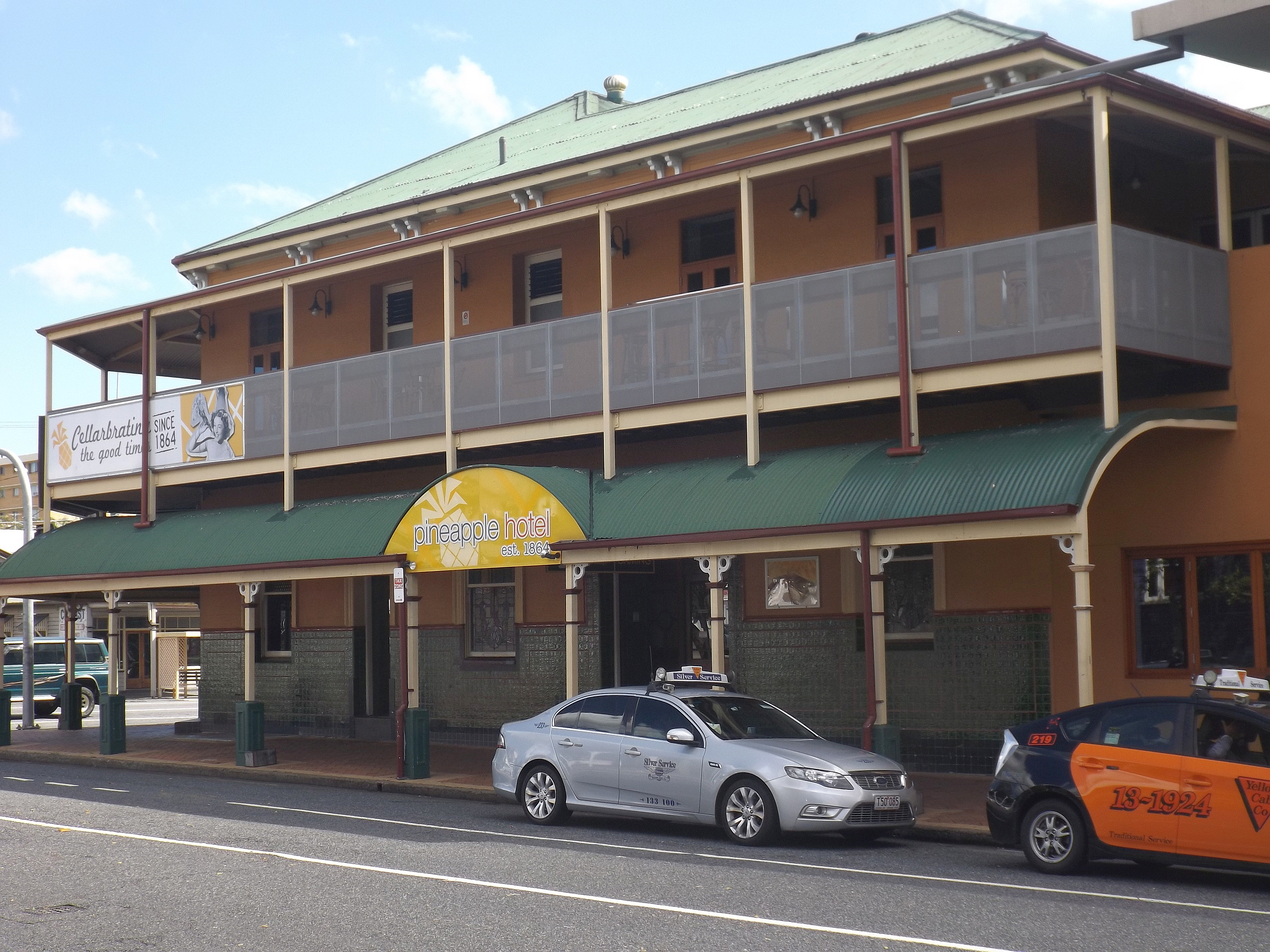 Photo of Pineapple Hotel at Kangaroo Point, Brisbane, Queensland, Australia.